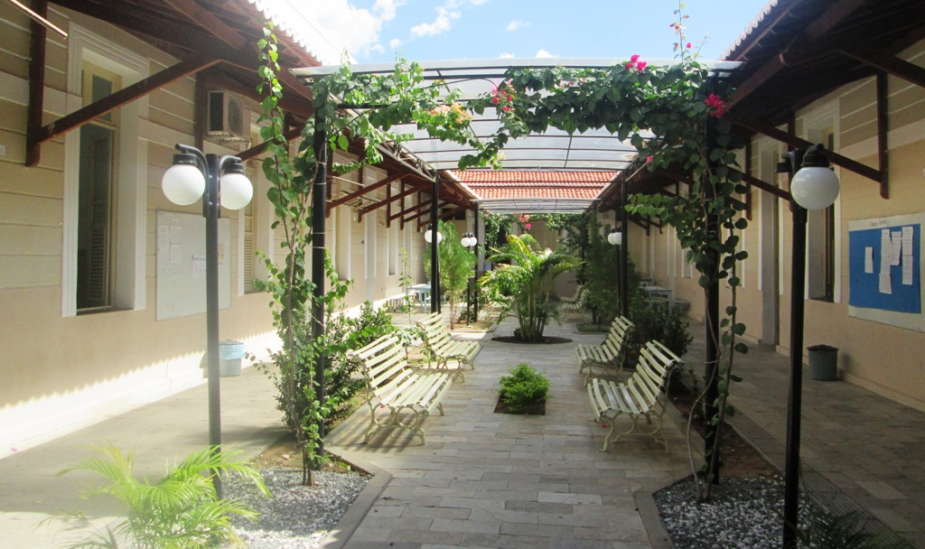 Senador Guerra School